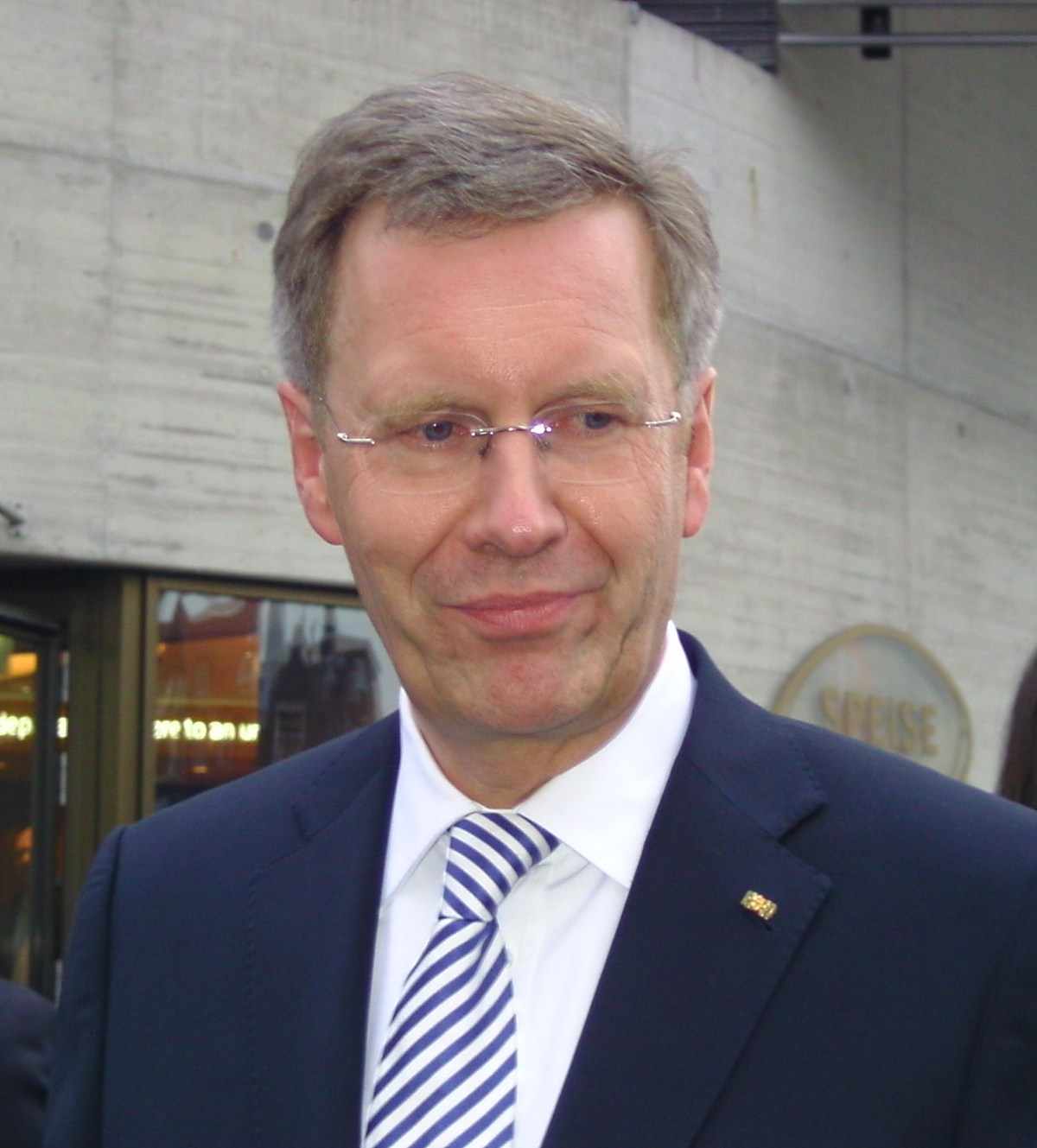 The President of Germany Christian Wulff during a visit to Bremerhaven